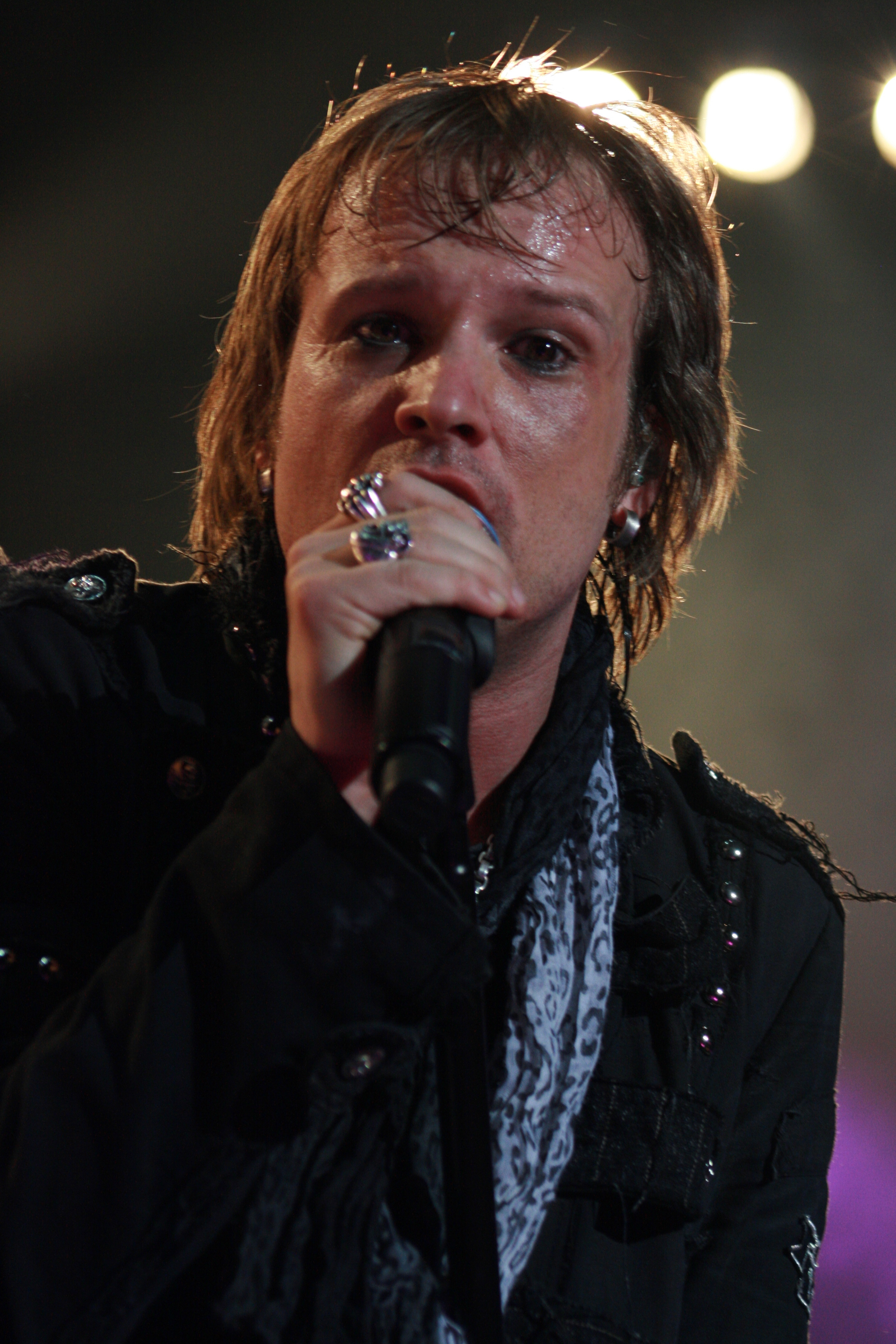 Tobias Sammet, singer of german Heavy Metal group Edguy